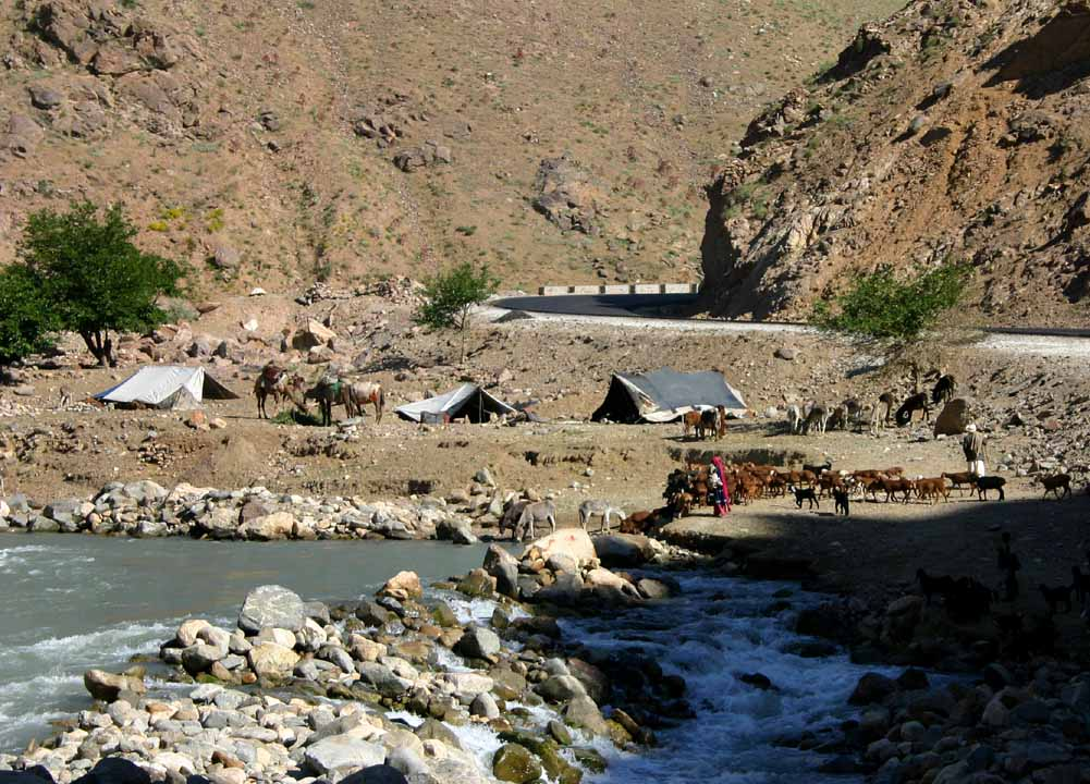 Herdsmen with sheep in the mountains of Afghanistan